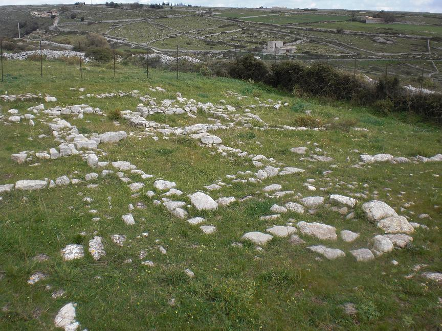 Ruins of the "Sicel" city of Castiglione near Ragusa, Sicily.